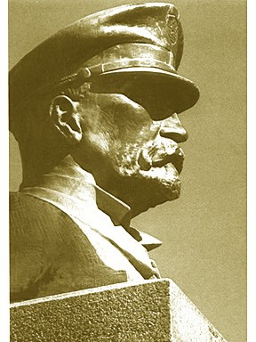 Leoš Kubíček - Tomáš Garrigue Masaryk